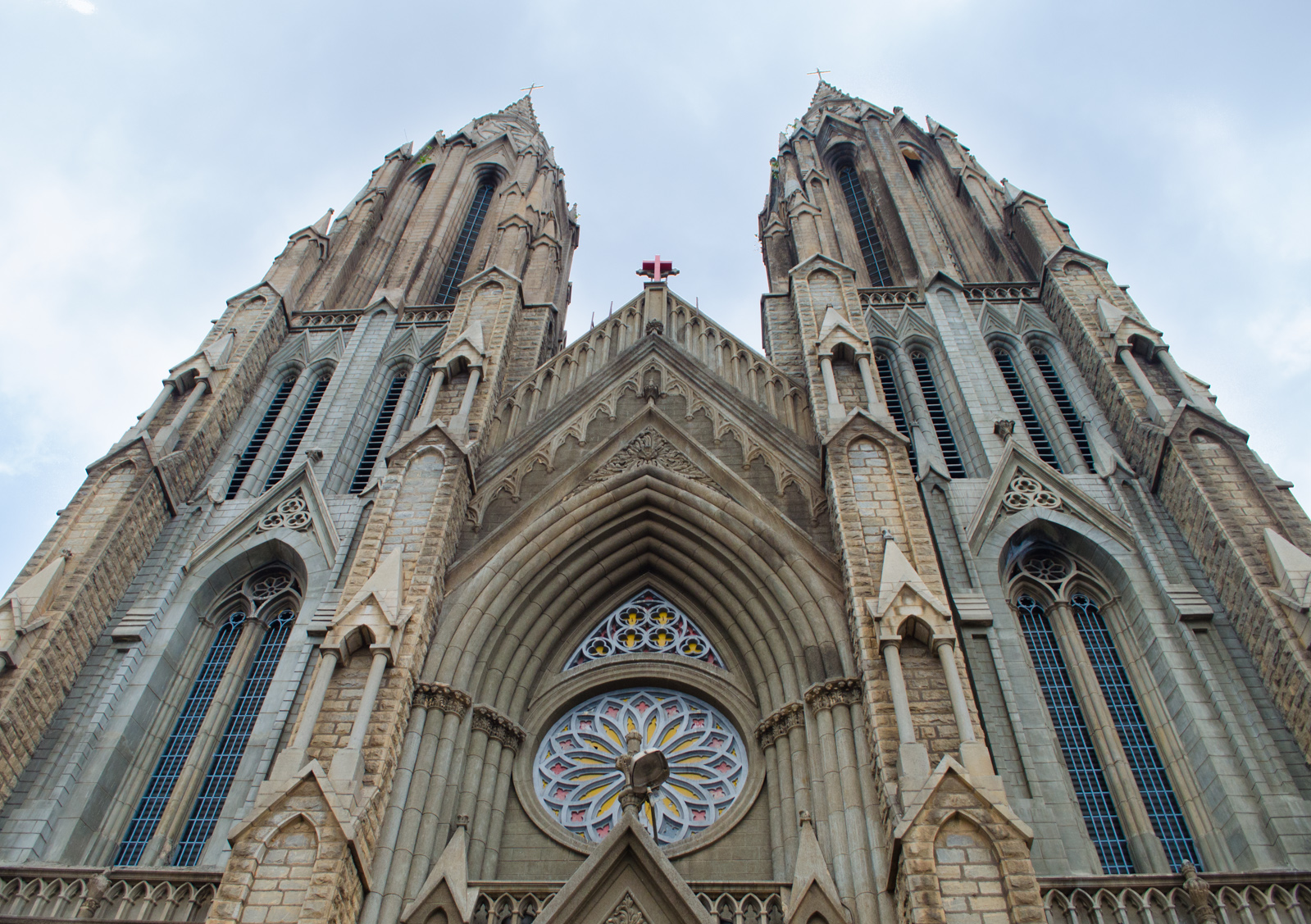 St. Philomena's Church, Mysore